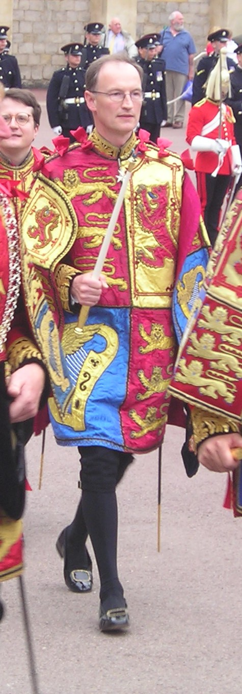 Alastair Bruce of Crionaich, Fitzalan Pursuivant Extraordinary, after the annual service of the Order of the Garter at St George's Chapel, Windsor Castle.